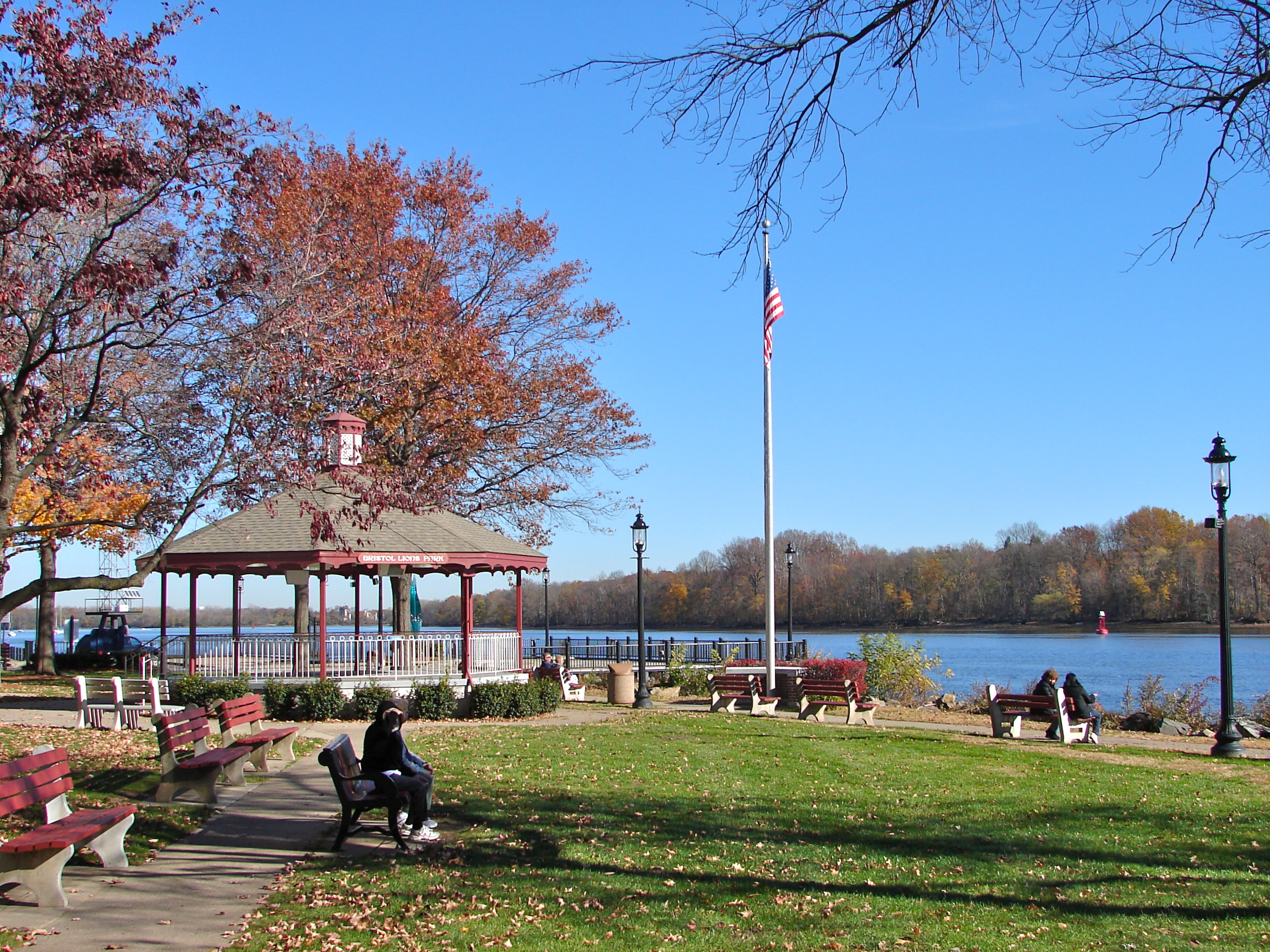 Lions Park and riverfront in Bristol, Pennsylvania. Delaware River at the foot of Mill Street. Across the river is Burlington Island in the beautiful Garden State of New Jersey.